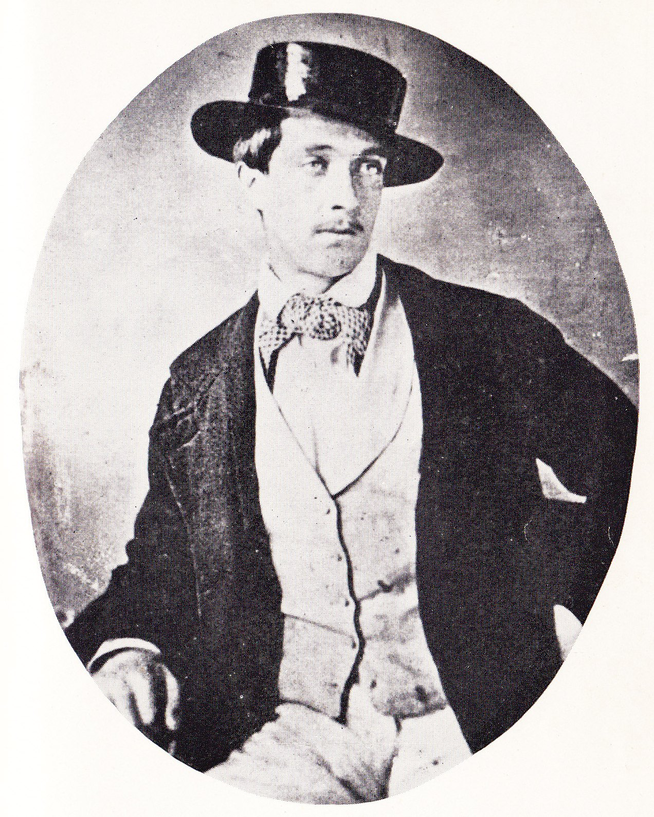 A daguerreotype of Roger Charles Doughty Tichborne, taken in Santiago, Chile